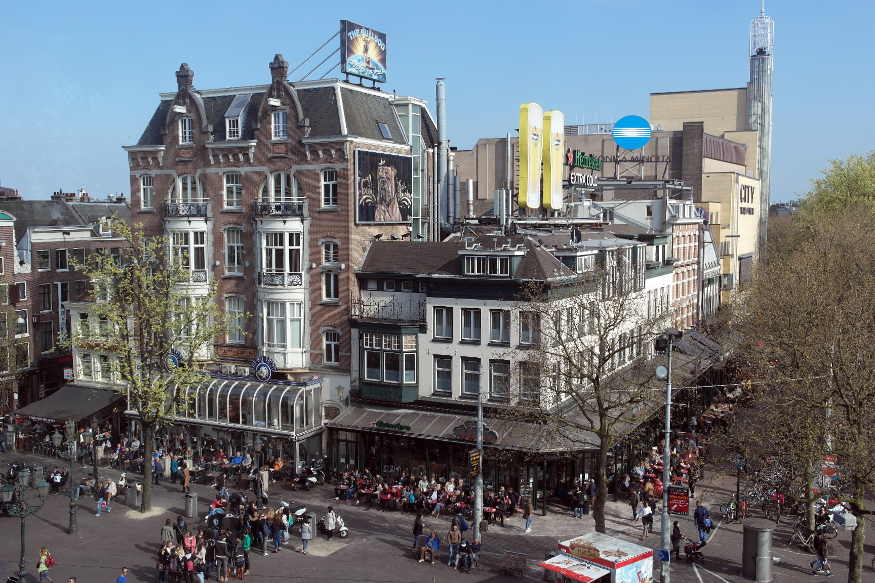 Amsterdam, the Netherlands. View of Leidseplein from Stadsschouwburg, Amsterdam's municipal theatre.